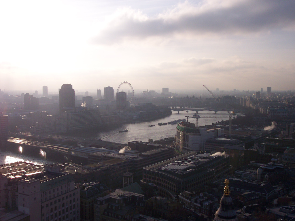 London Skyline From St. Pauls